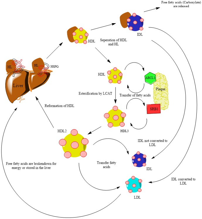 Function and regulation in lipid metabolism by hepatic lipase